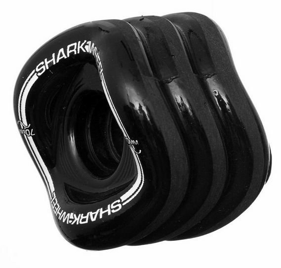 Image of Shark Wheel